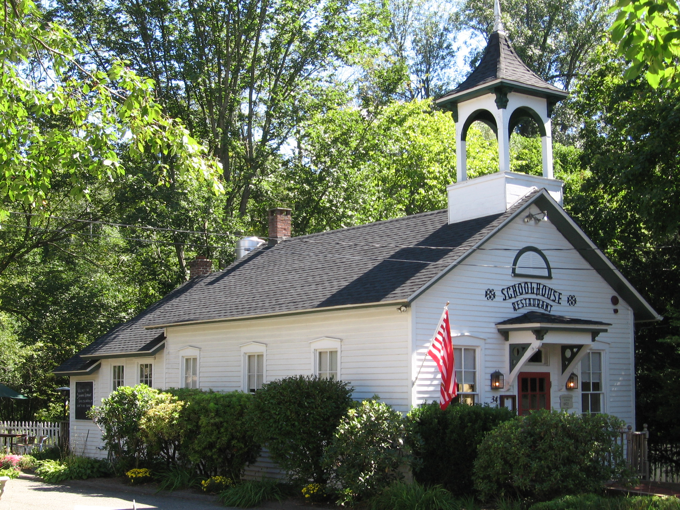 Cannondale School, built 1872, served the Cannondale section of Wilton, Connecticut and is now a restaurant in the Cannondale Crossing shopping center, a collection of nineteenth century buildings also holding antique shops, a British goods store and a clothing store.